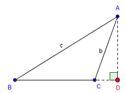 image for projection formula in trigonometry